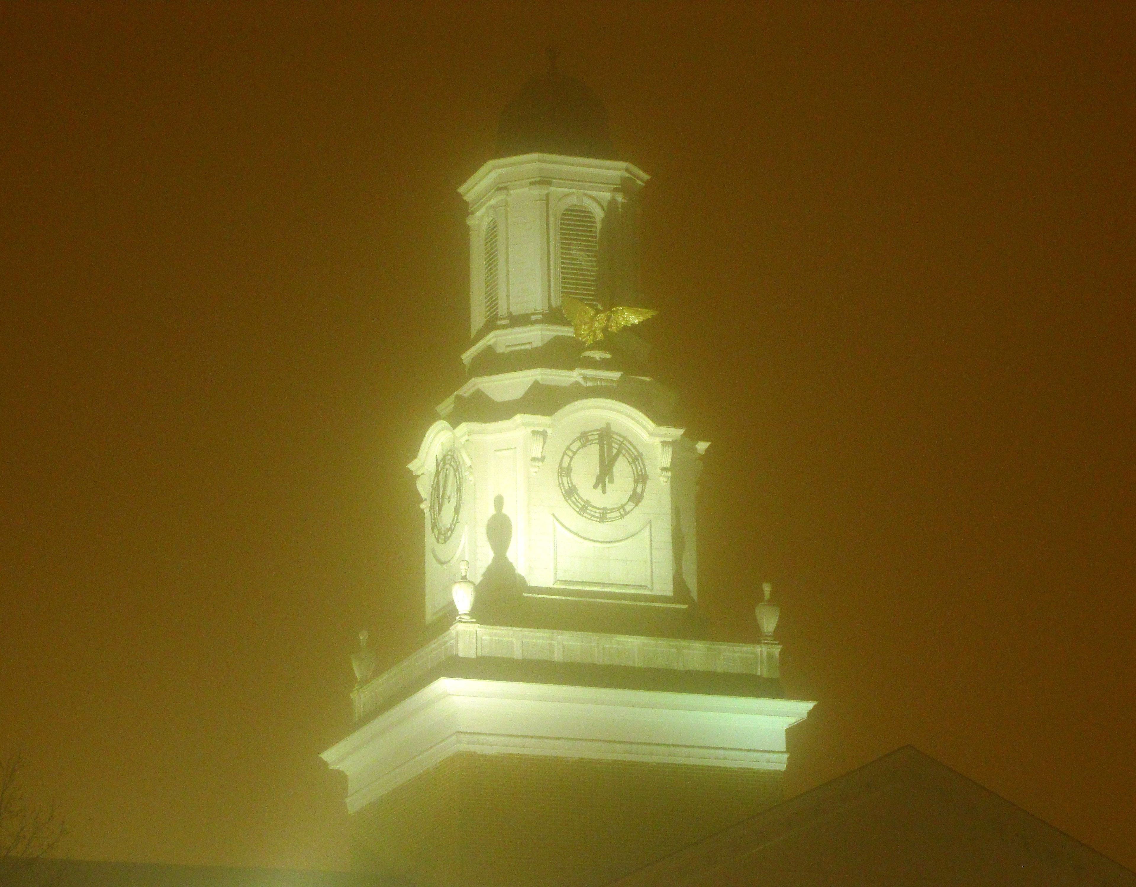 The clock tower atop Derryberry Hall at Tennessee Technological University in Cookeville, Tennessee, USA.